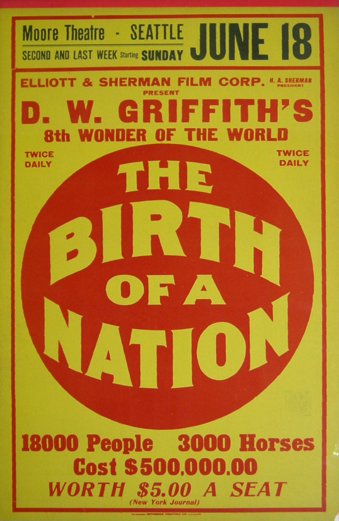 Poster for the first-run showing of D.W. Griffith's Birth of a Nation at the Moore Theatre, Seattle, Washington.